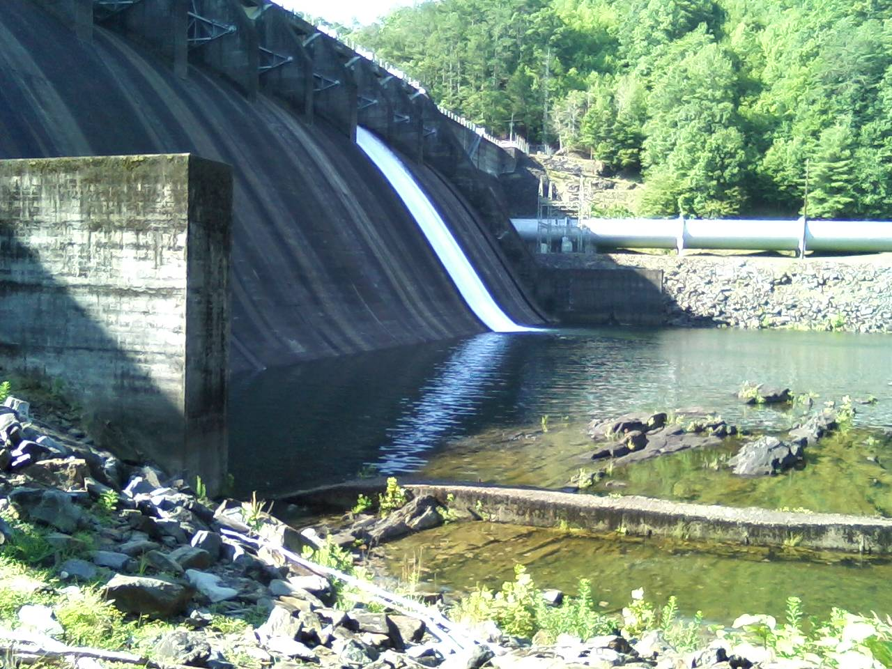 Apalachia Dam, lower level shot, showing the spillway and gates